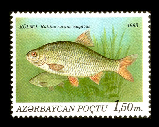 Stamp of Azerbaijan